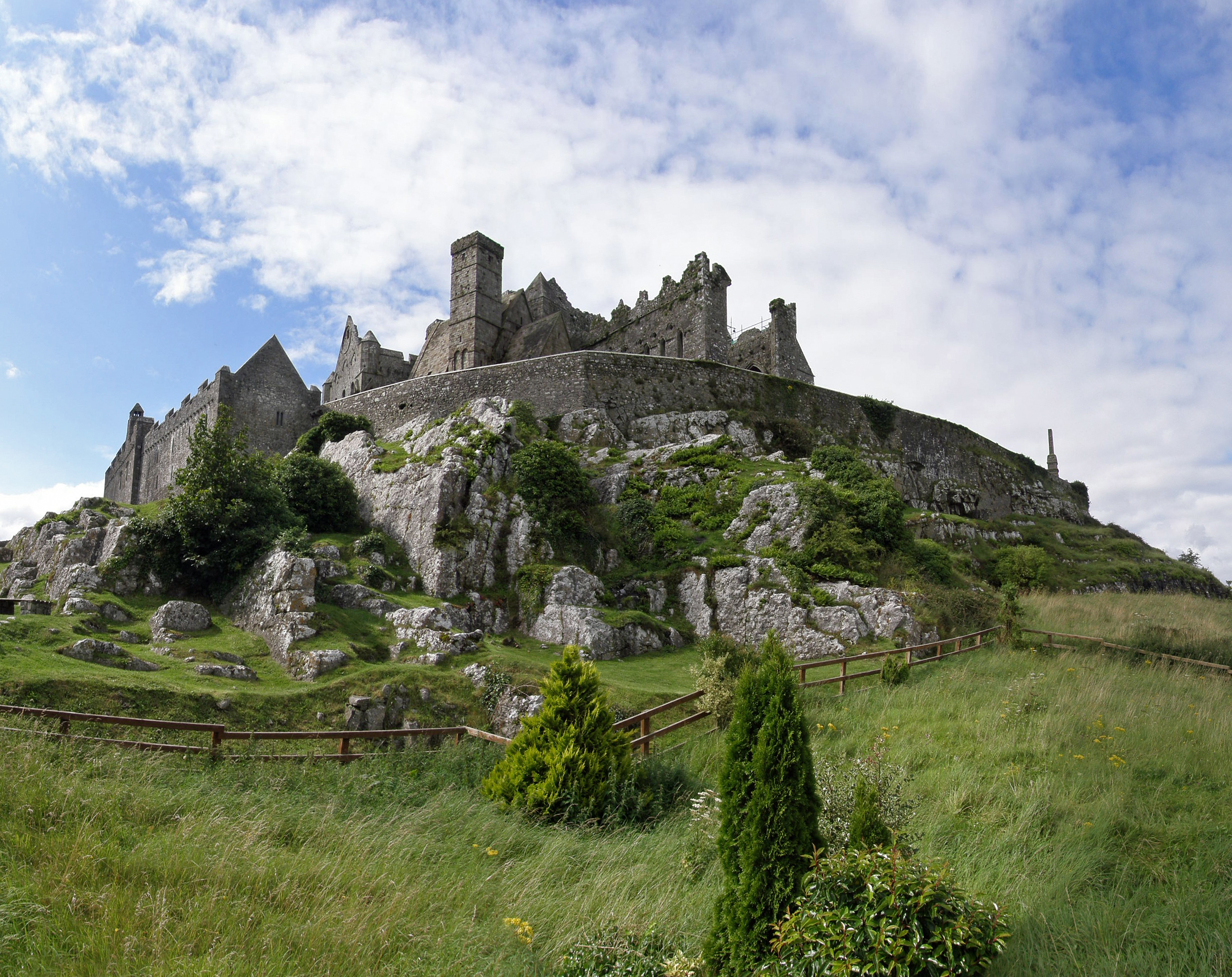 Rock of Cashel - Tipperary, Ireland